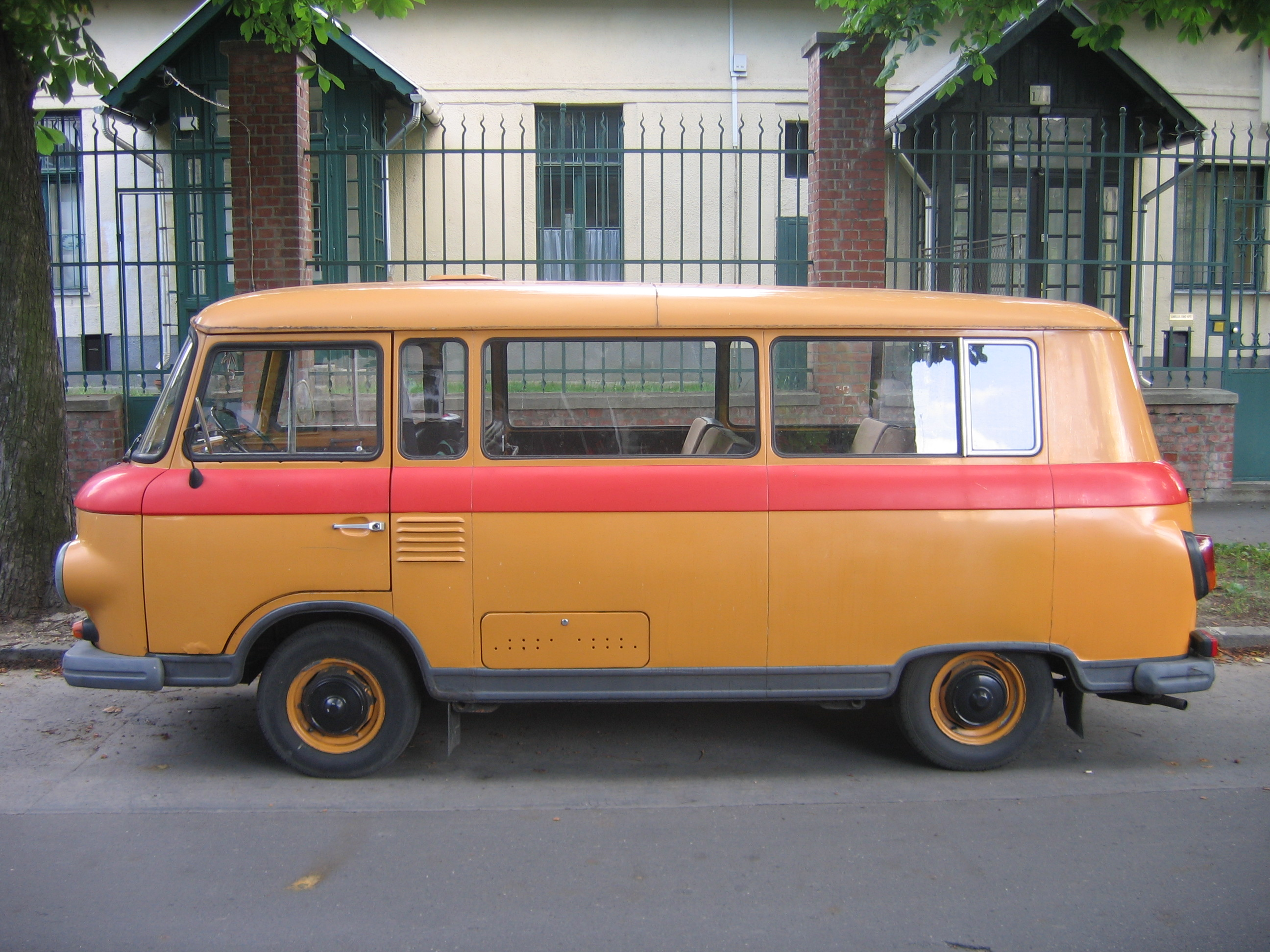 Barkas B1000 from side